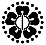 photo of Kozakura-ikka's emblem